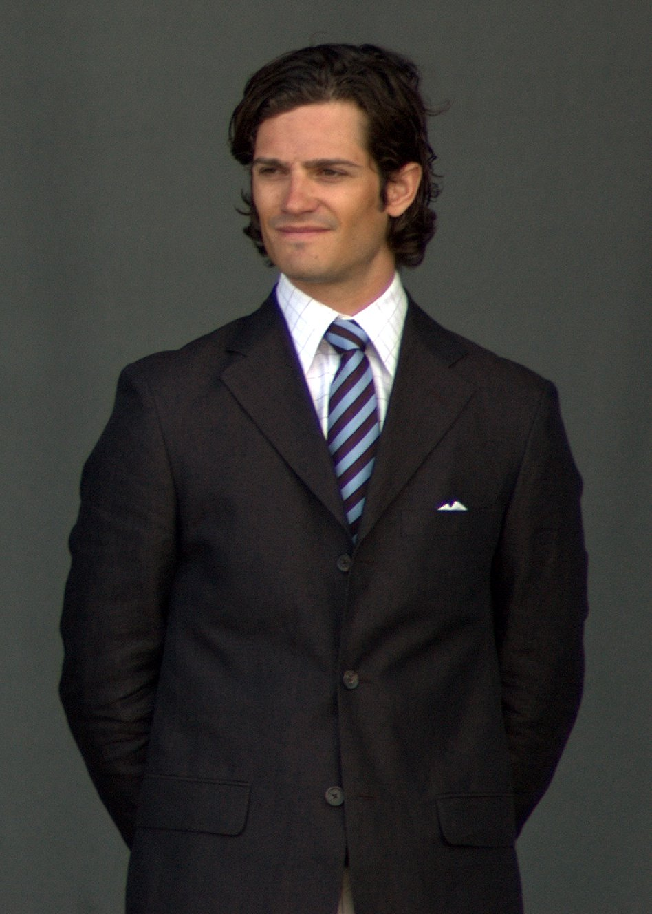 This is prince Carl Philip of Sweden at the opening ceremony of Götatunneln (a tunnel in Gothenburg). Camera: Nikon D50